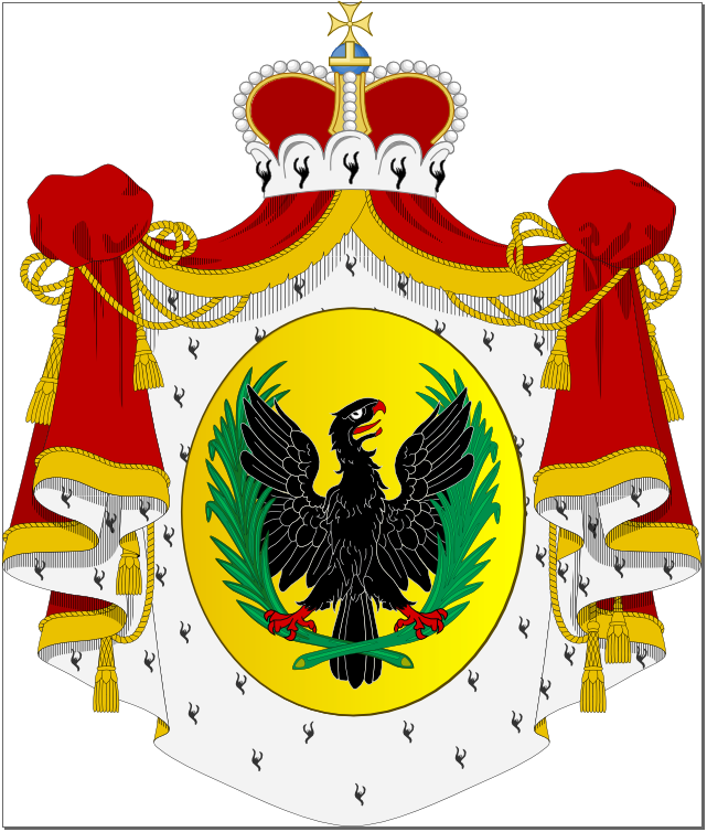 COA od Avalishvili